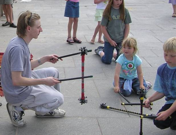 Flower sticks, similar to devil sticks, but with 'flowery' rubbers at both ends to slow it down